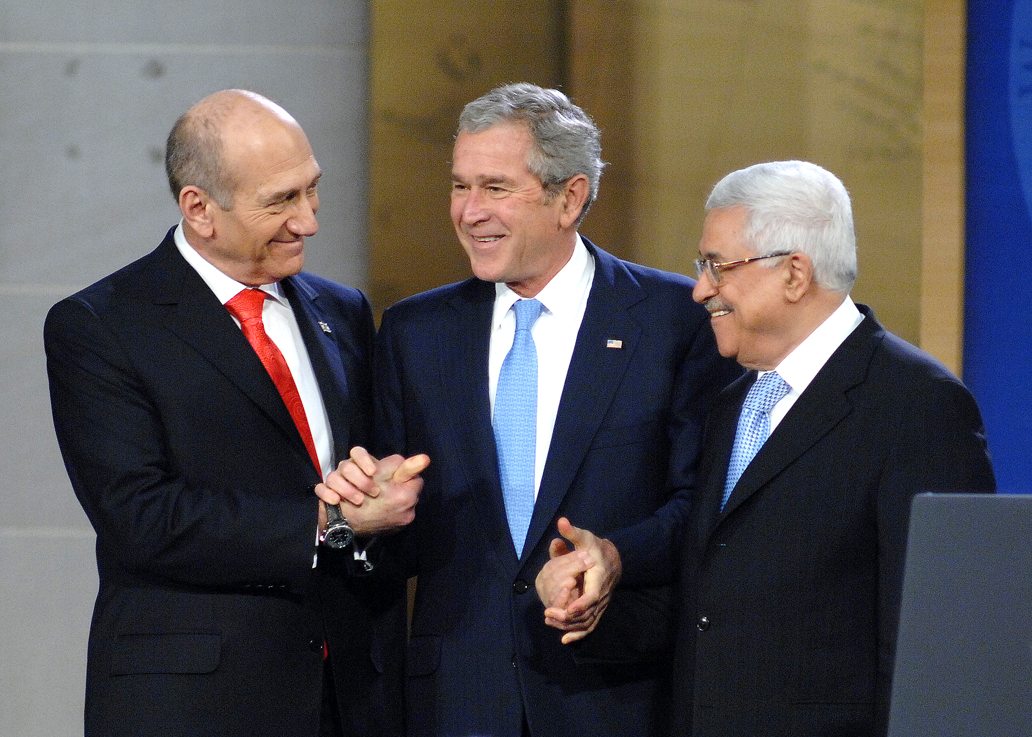 ANNAPOLIS, Md. (Nov. 27, 2008) Israeli Prime Minister Ehud Omert, left, President George W. Bush, and Palestinian President Mahmoud Abbas shake hands following President Bush's address to more than 50 counties and organizations at the Annapolis Conference in the Naval Academy's Memorial Hall. Attendees included "the Quartet," made up of the United Nations, European Union, Russia and the United States; members of the Arab League Follow-on Committee, the Group of Eight major industrialized nations, permanent members of the U.N. Security Council, and other key international officials. U.S. Navy photo by Gin Kai (Released)